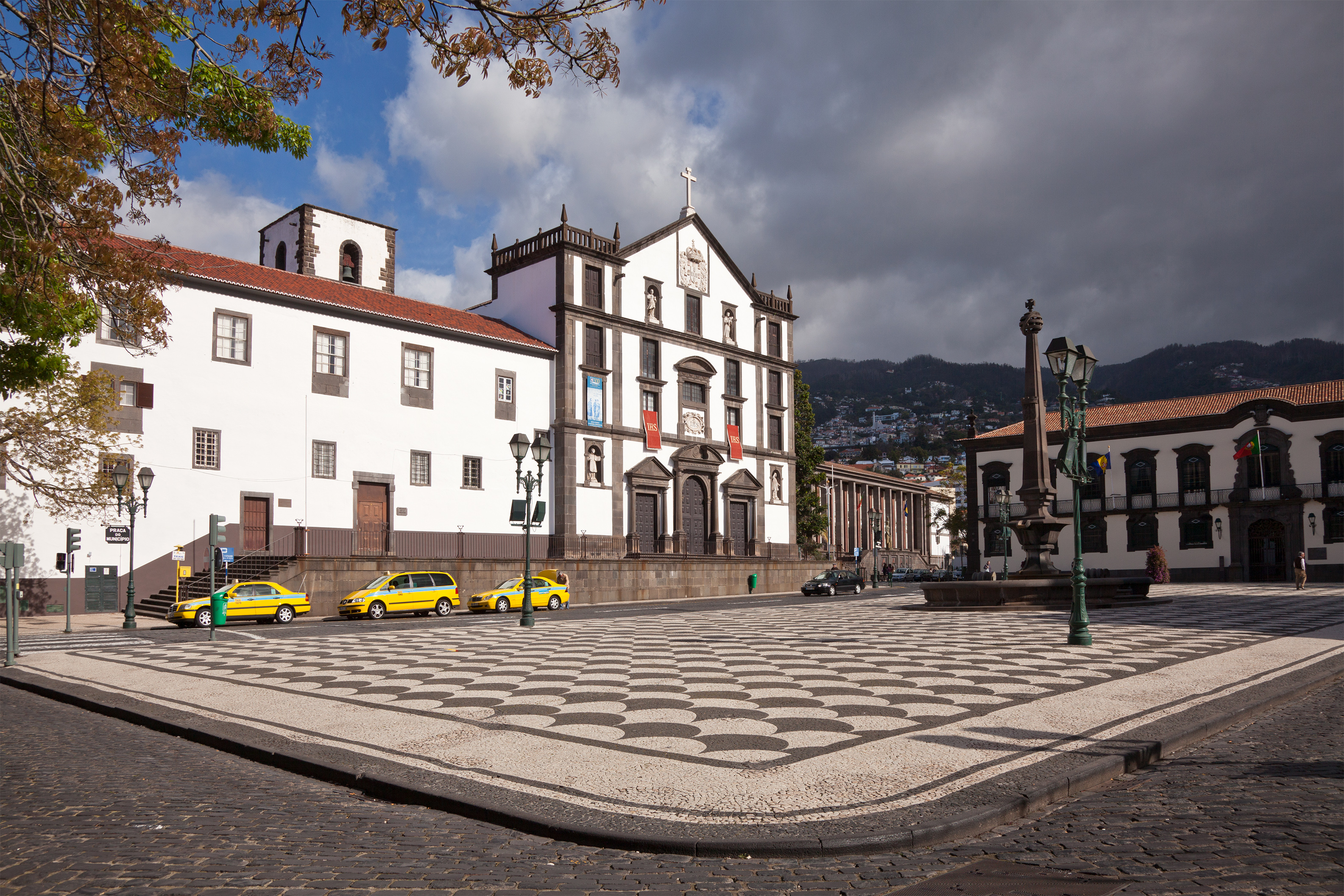 Funchal (Madeira), Praça do Município and Colégio de São João Evangelista